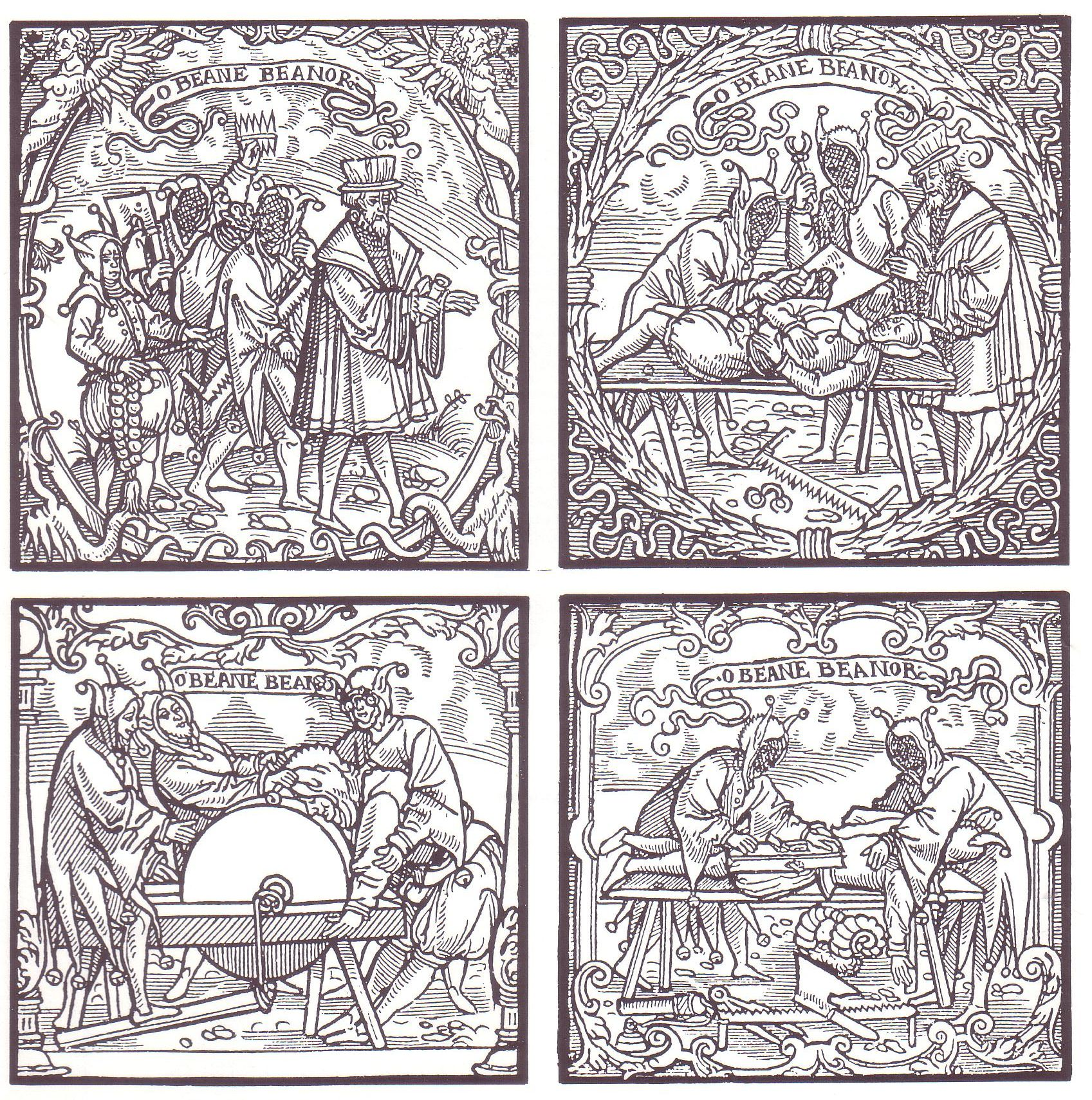 Die Deposition (lat. depositio cornuum, "Ablegen der Hörner") war ein europaweit gebräuchlicher Initiationsritus an Universitäten, Holzschnitt aus dem 16. Jahrhundert, Rechte abgelaufen, Public Domain The deposition lat. depositio cornuum, "putting down the horns") was a necessary initiation ritual in European Universities, woodcarving from the 16th century. Public Domain.